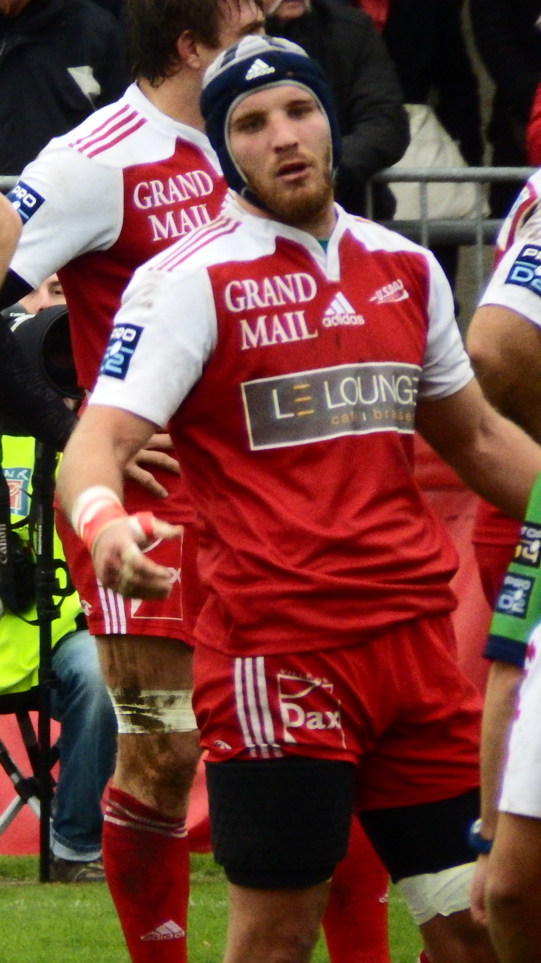 2013–14 Rugby Pro D2 season — 24 November 2013, Stade Maurice Boyau. Match between: US Dax — Tarbes Pyrénées Rugby